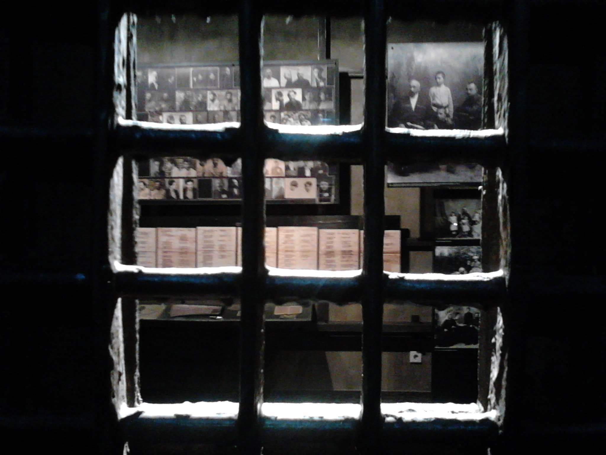 exposition of the Museum of the Occupation of Georgia